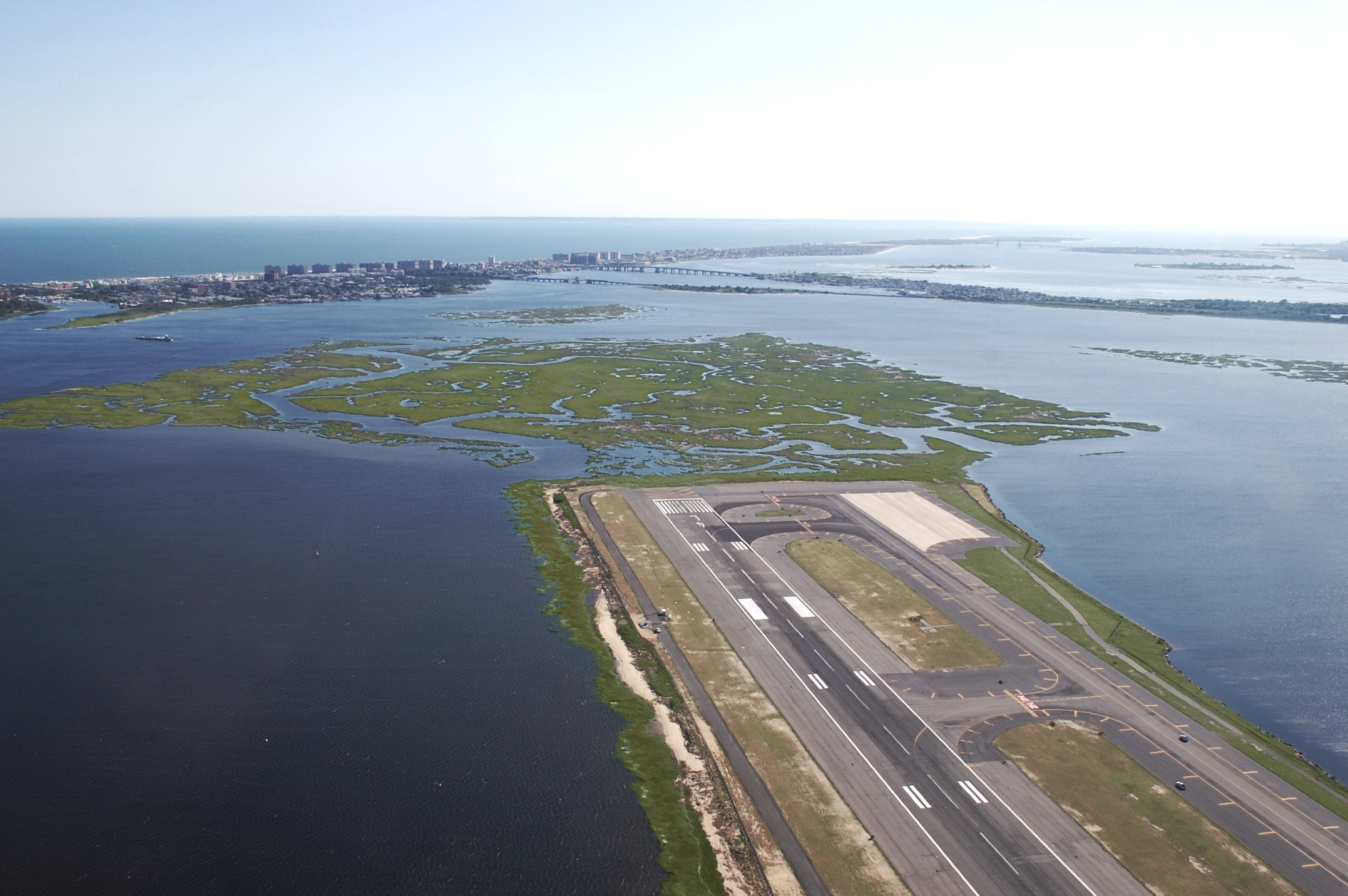 Departing John F. Kennedy International Airport, June 2012